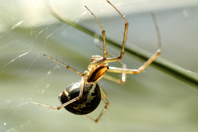 Linyphia triangularis from Commanster, Belgian High Ardennes .